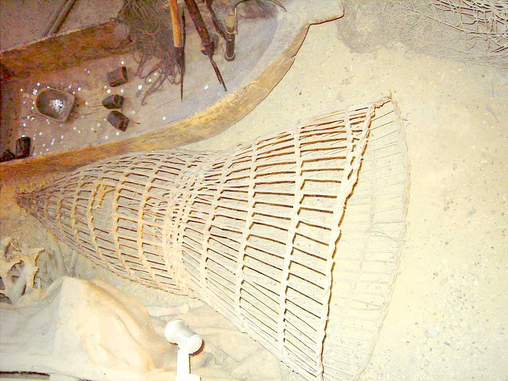 Lobster trap, photographed in museum of Visegrád, Hungary .